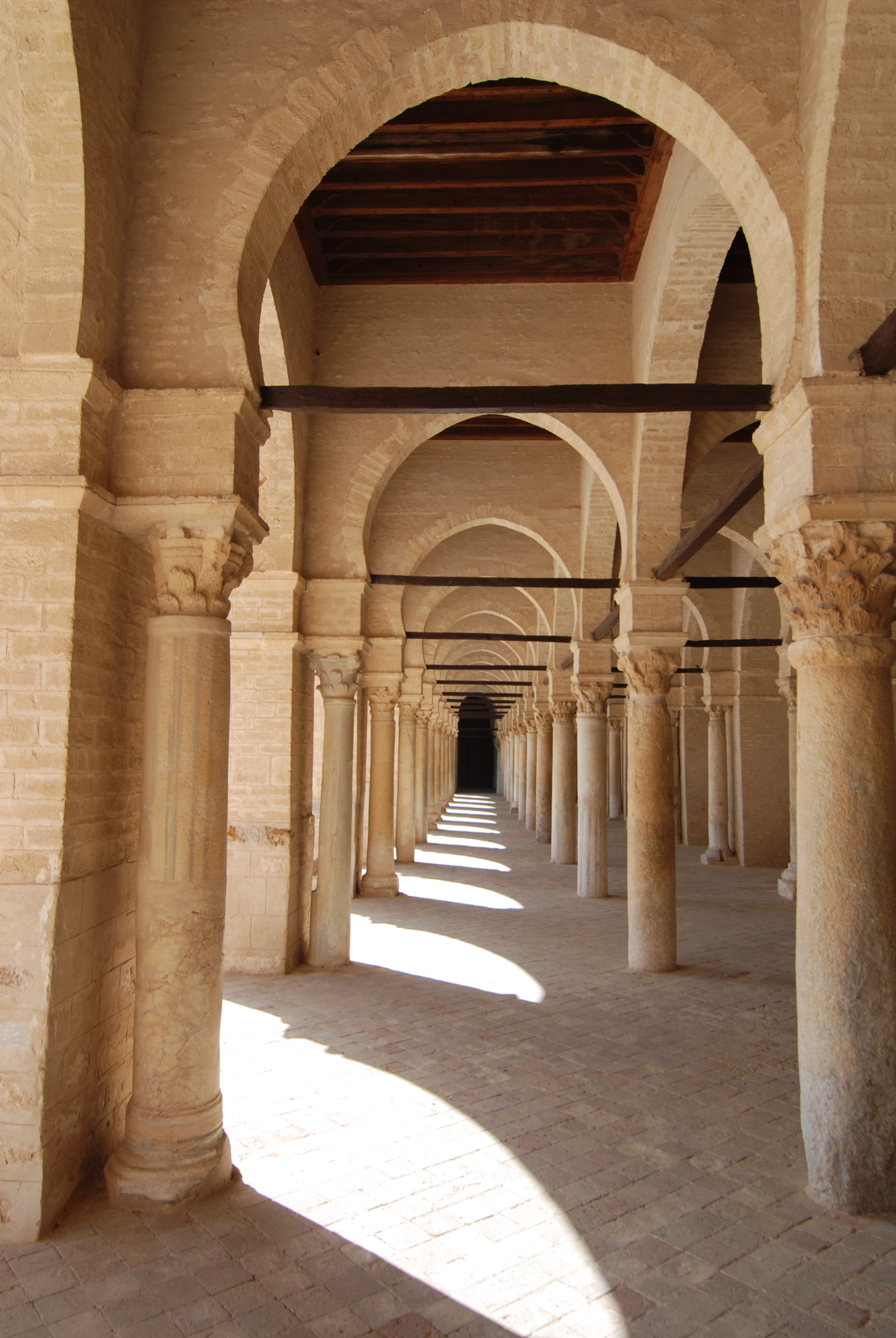 Gallery at the Great Mosque of Kairouan